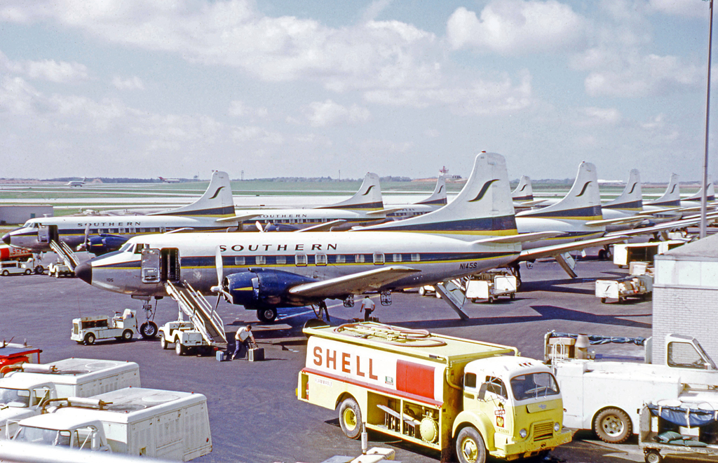 Martin 404 N145S of Southern Airways at Atlanta Airport in 1972